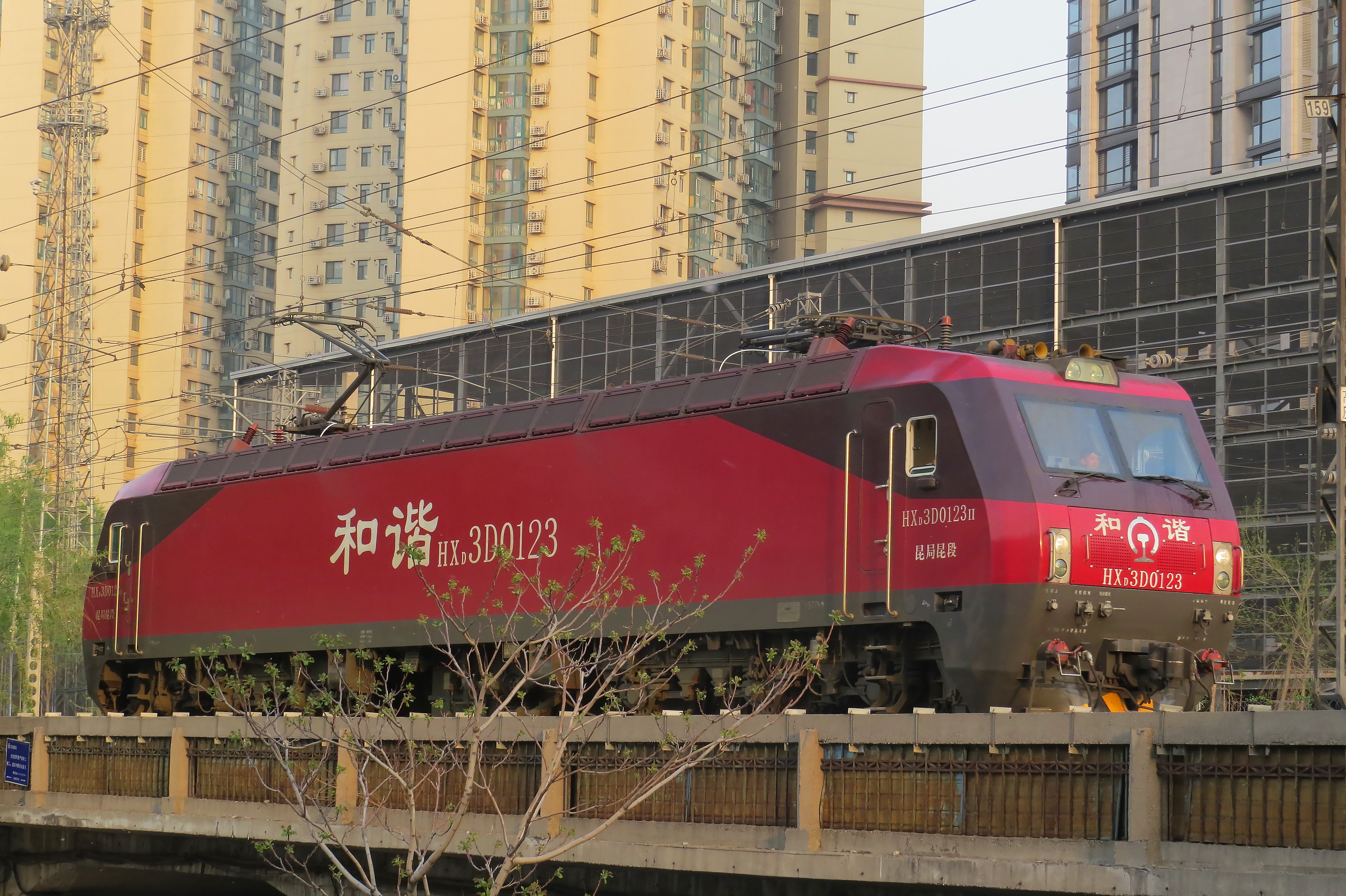 Maybe just back from K472.